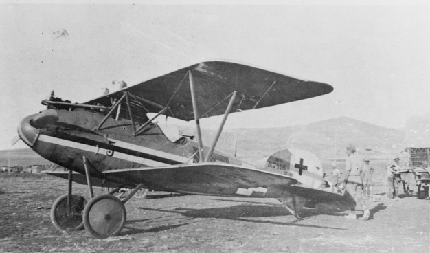 AWM caption : Ottoman Empire: Palestine, North Palestine, Jenin. An Albatros Scout D VA Serial aircraft, serial 7416/17 with white-black-white fuselage stripes with '5' at nose, intermediate type national insignia which landed at Jenin after the town had been captured by Australians. The airmen were of the opinion that the town was still in Turkish hands.